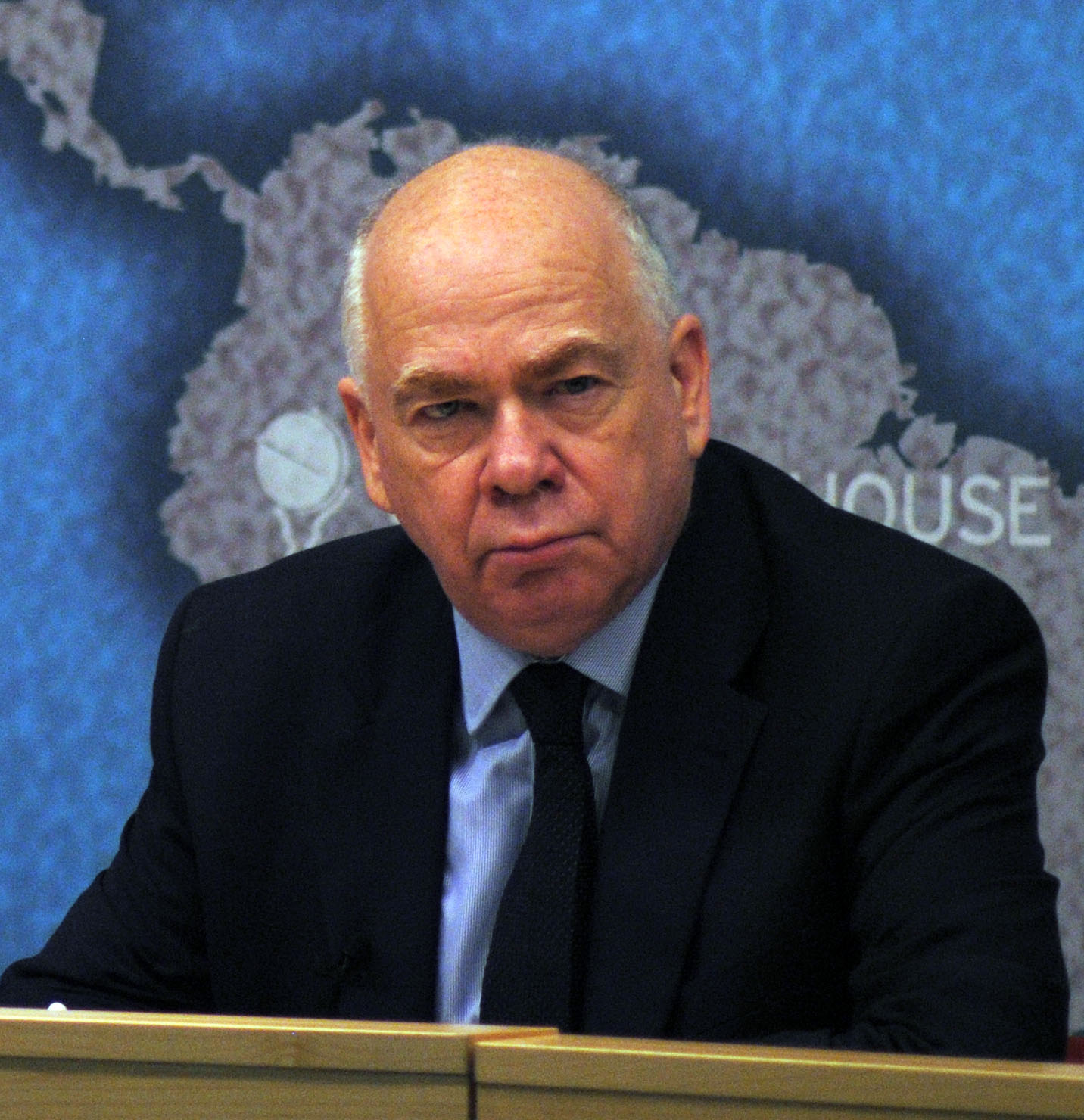 Professor Sir Lawrence Freedman at the Chatham House event "Are Nuclear Weapons Still Fit for Purpose?"